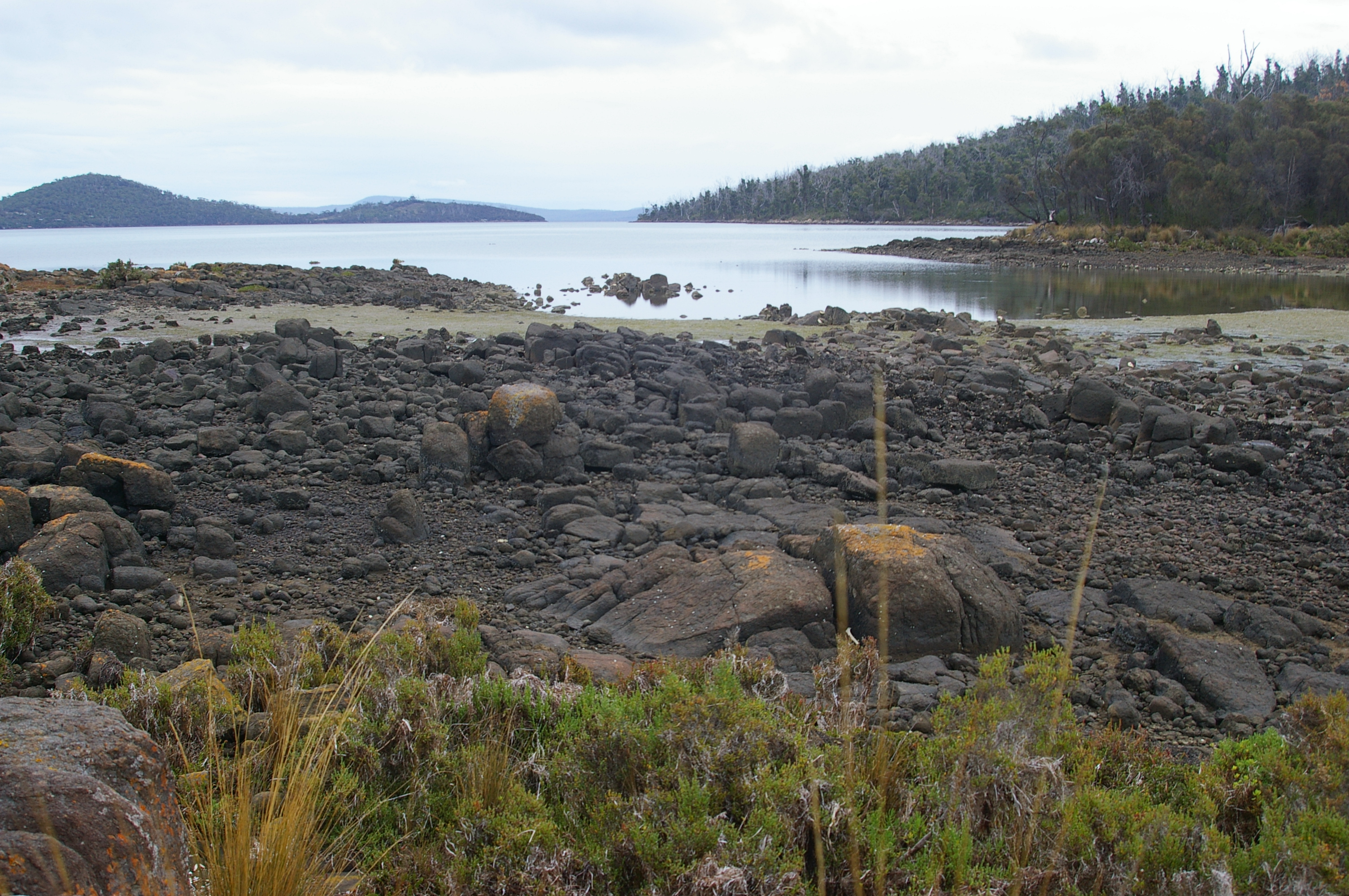 View across King George sound towards Chronicle Point Conservation Area and Lime Bay State Reserve, Tasmania